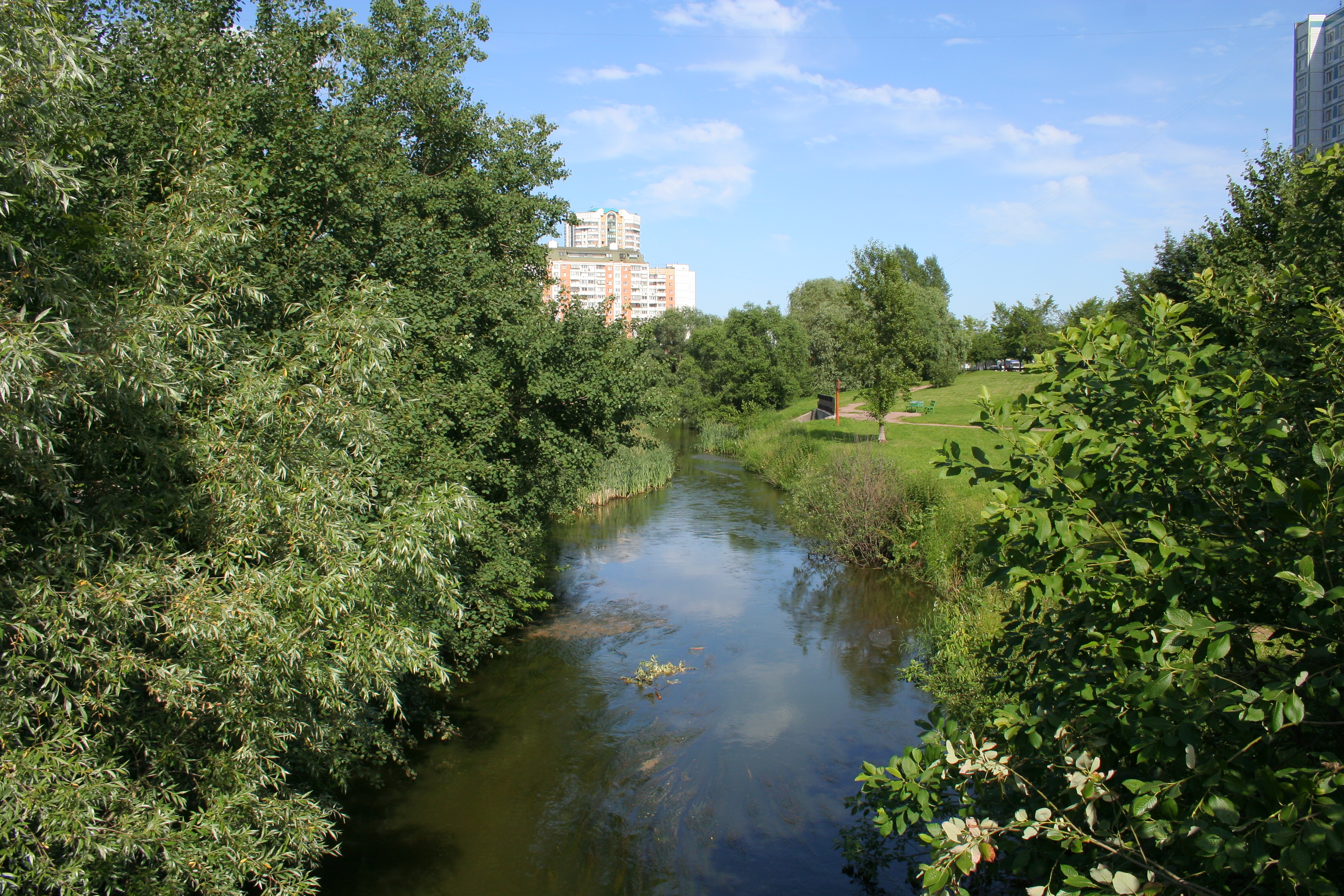 The Gorodnya river in the Moscow district Brateevo.